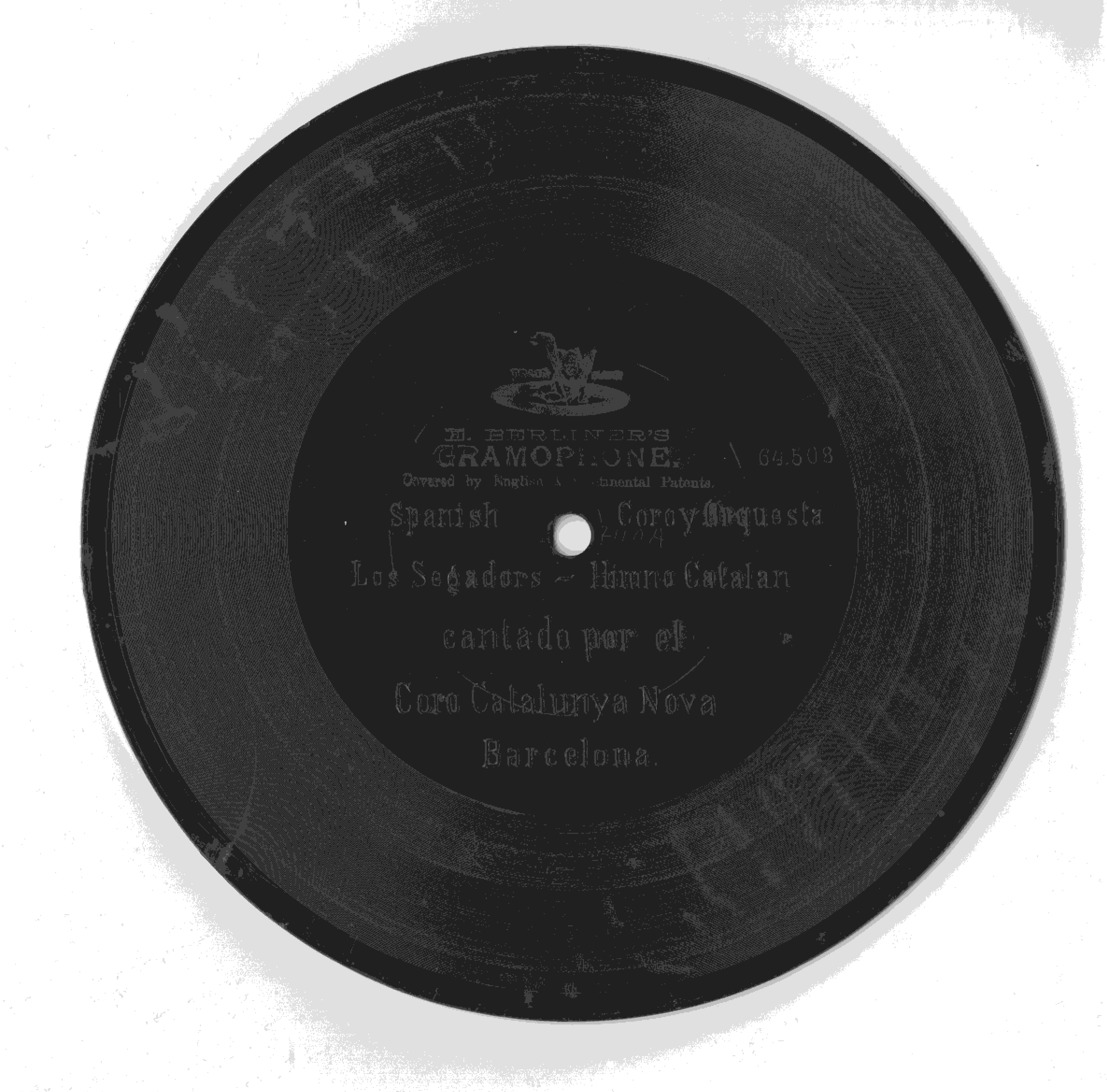 Vinil, 70rpm, Els Segaros